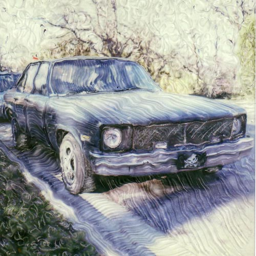 Manipulated SX-70 photograph of a Chevy Nova. I took this photograph and manipulated it myself. License information below applies to the relatively low-resolution image seen here. I reserve all rights to higher-quality versions of it.